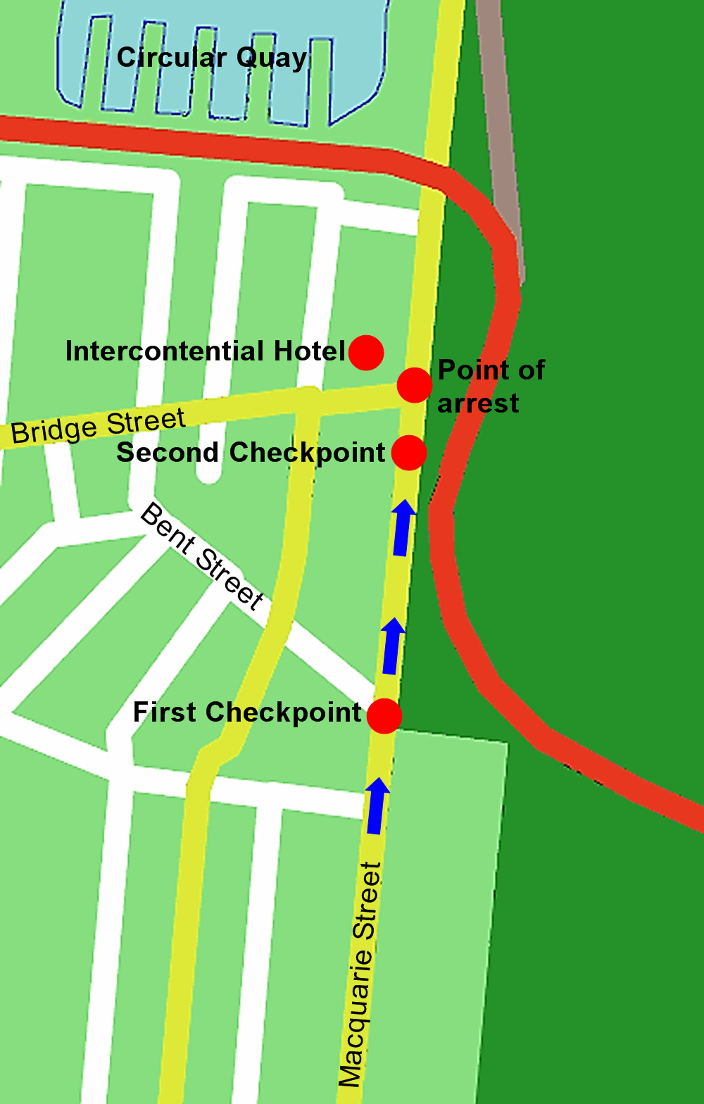 A map of Sydney portraying the evolvement of events of The Chaser APEC pranks.